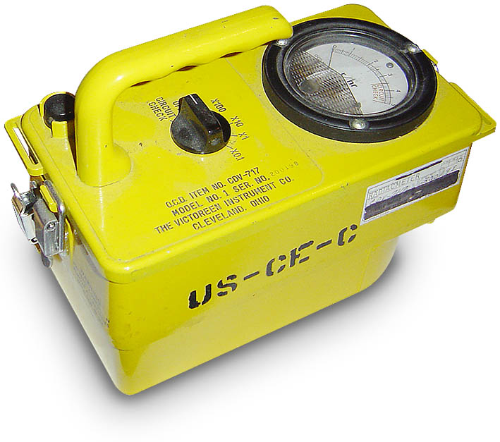 This is a Cold War era survey-meter (also known as an ion chamber or dosimeter) for radiation exposure. It is not a Geiger counter--with a Geiger counter, some clicking is normal (radiation occurs daily). A Geiger counter measures instant radiation; a survey-meter measures cumulative radiation If this begins to click, it has been exposed to enough cumulative radiation that the user is in medical danger.